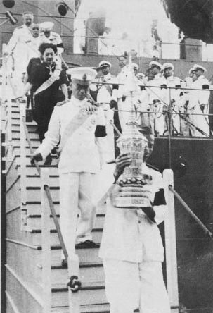 King RamaVII's ashes were brought back to Bangkok by Queen Rambhai Bharni.